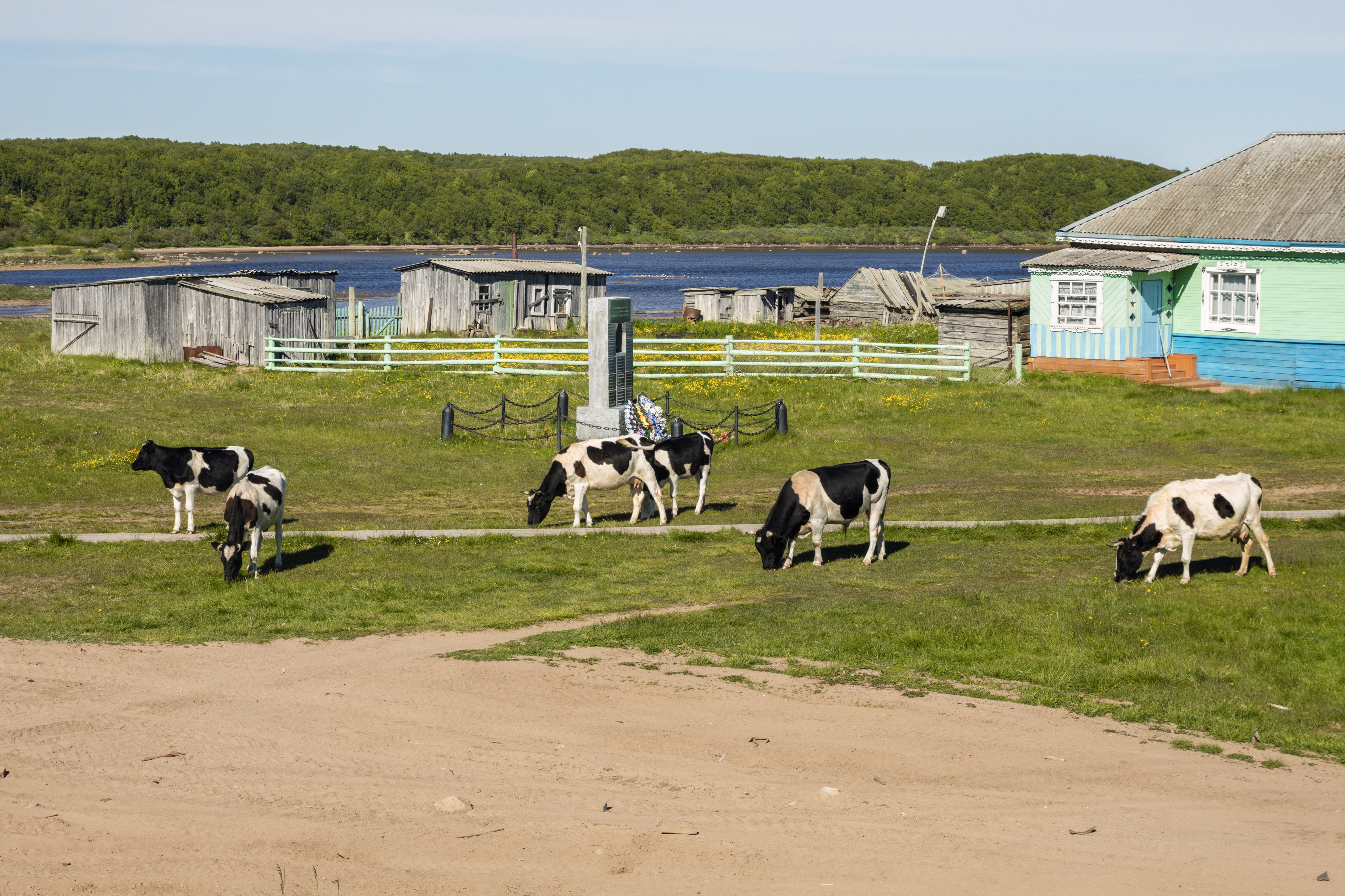 Images from the Villiage of Chapoma, on the Kola Peninsula, Murmansk Oblast, Russia.